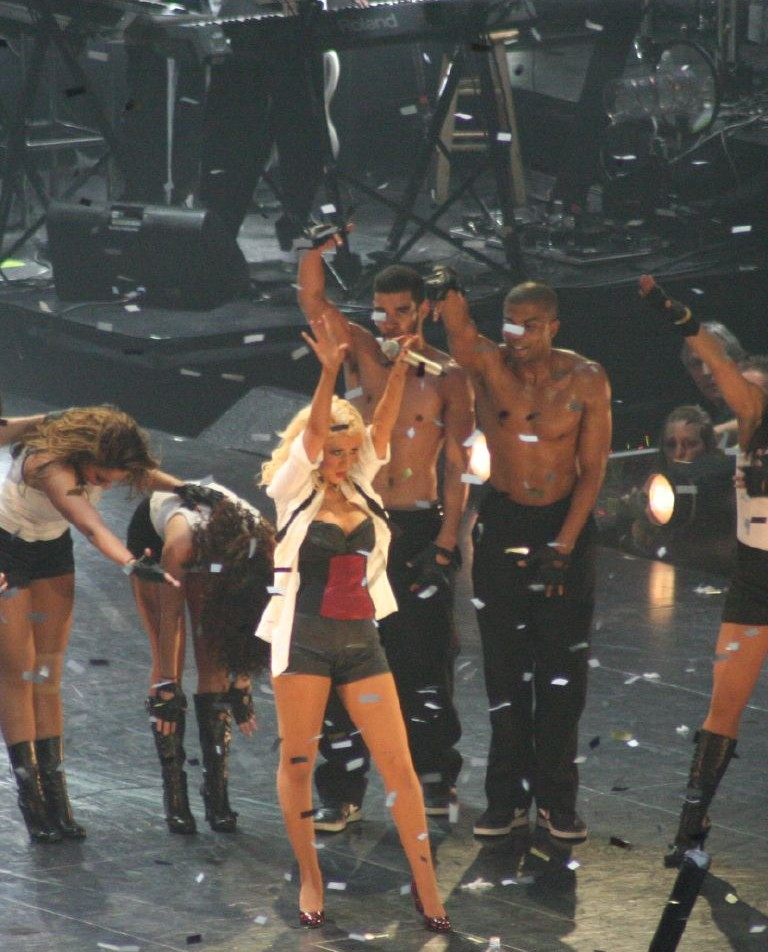 Christina Aguilera performing "Fighter" at the encore of "Back to Basics Tour" in a confetti rain